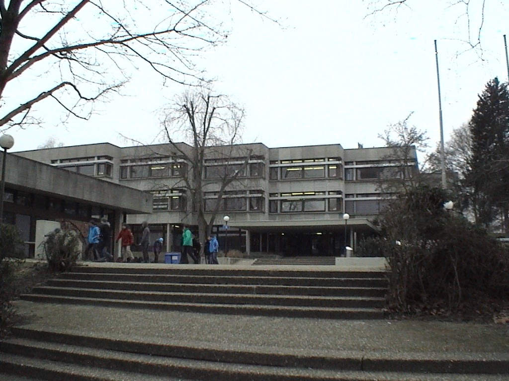 Reuchlin-Gymnasium Pforzheim's (engl. Reuchlin Grammar School) front side (east)